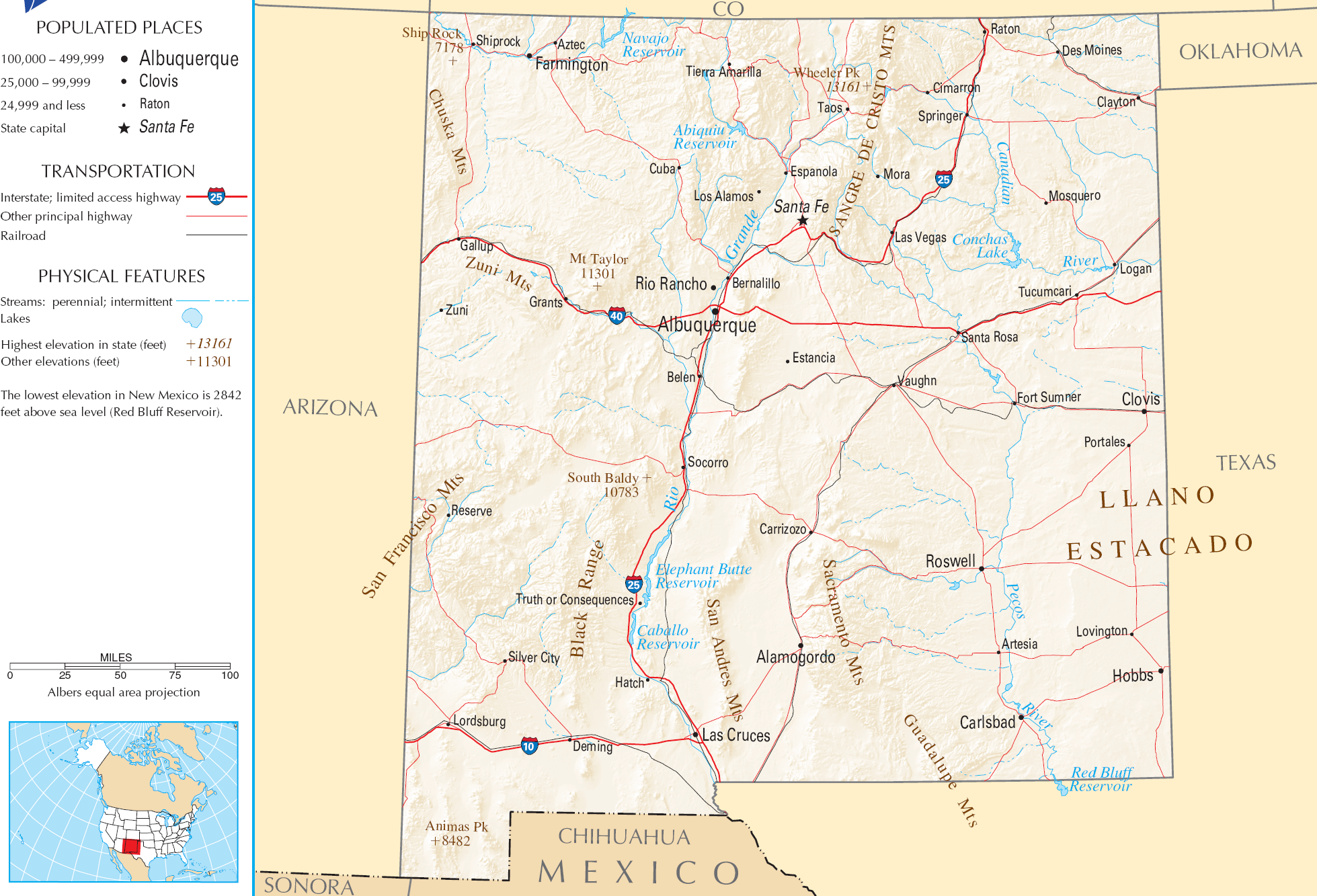 Map of New Mexico